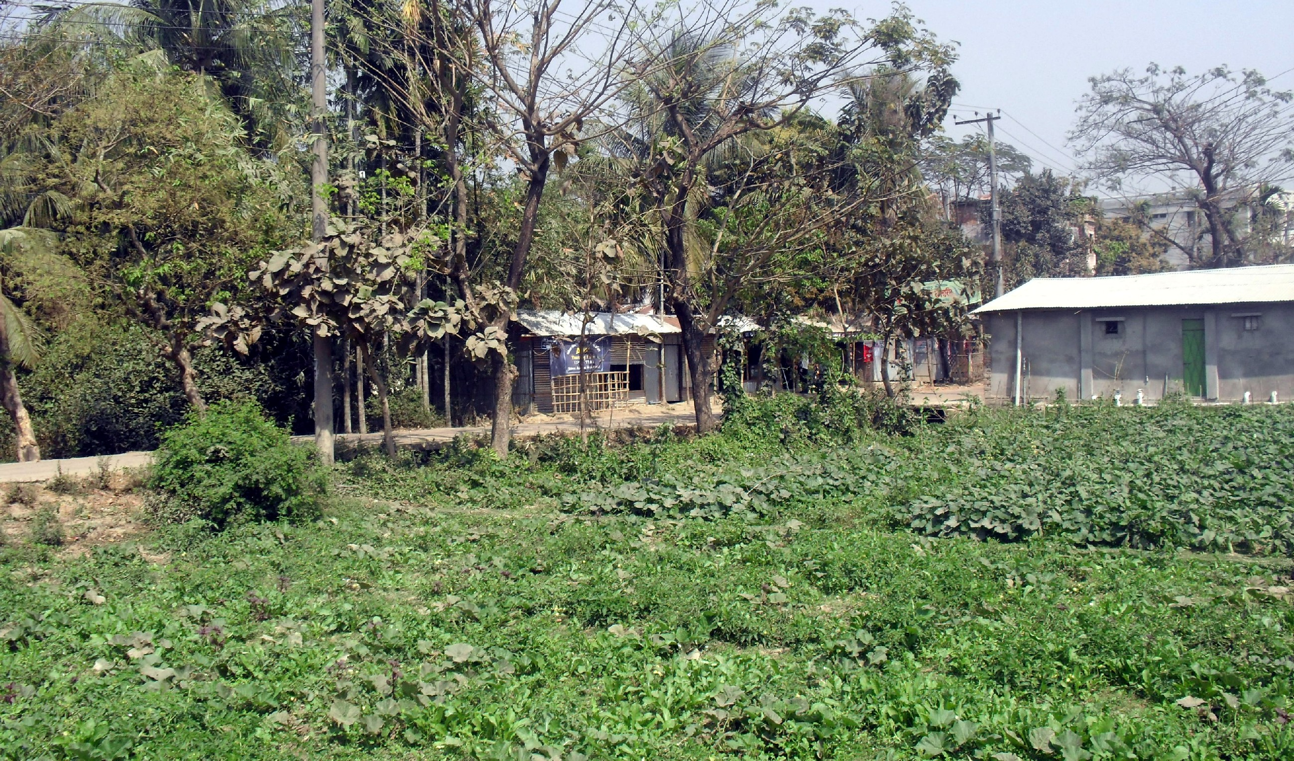 Photo showing an area in Latifpur village with Chhadu Ullah Munsi Road at center.